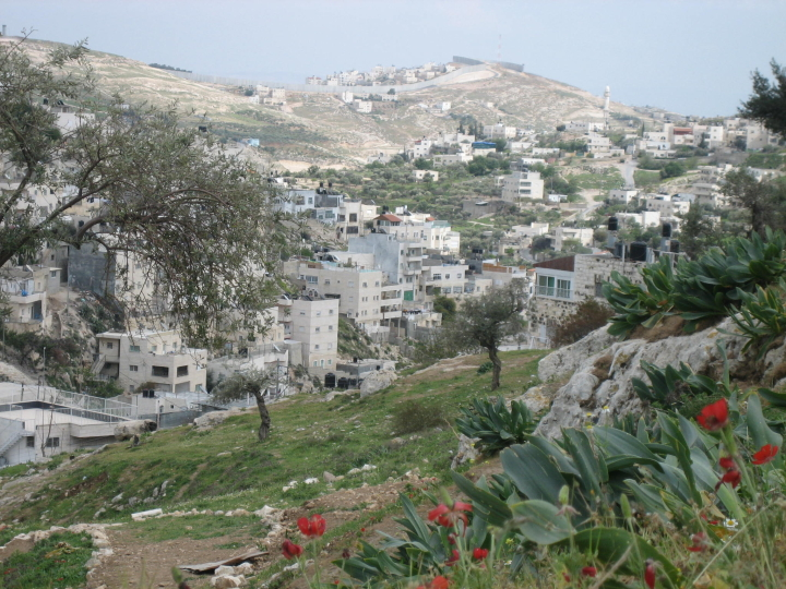 A view of Silwan from Abu Tur, looking towards the Separation Wall near the Old City of Jerusalem.